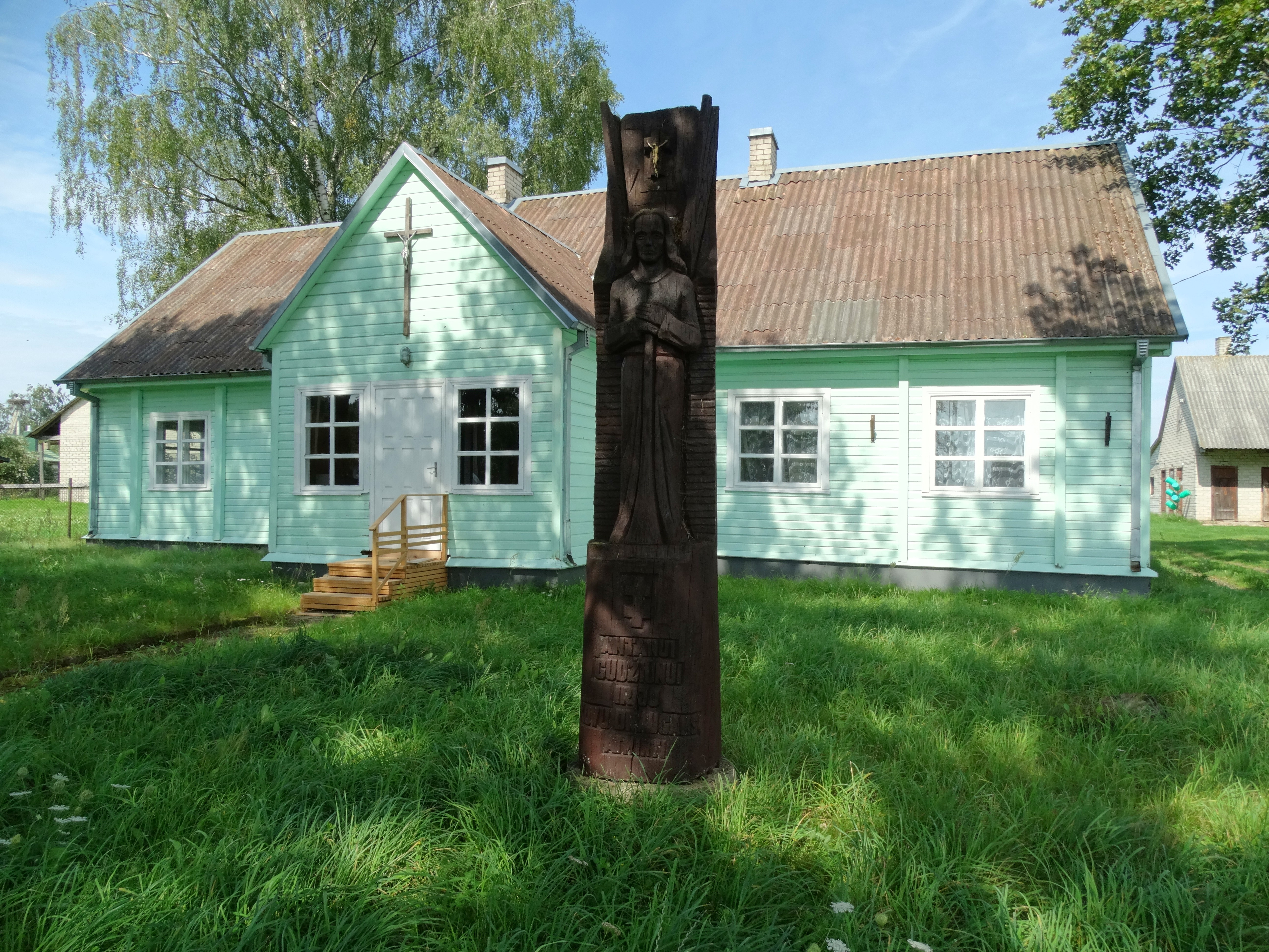 Chapel, Griciai, Jurbarkas district Lithuania